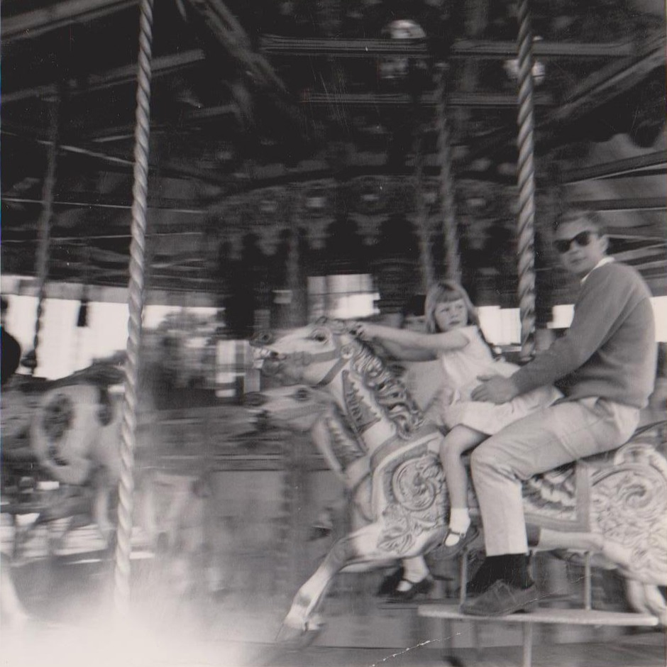 Terry with daughter Karen on funfair ride Battersea